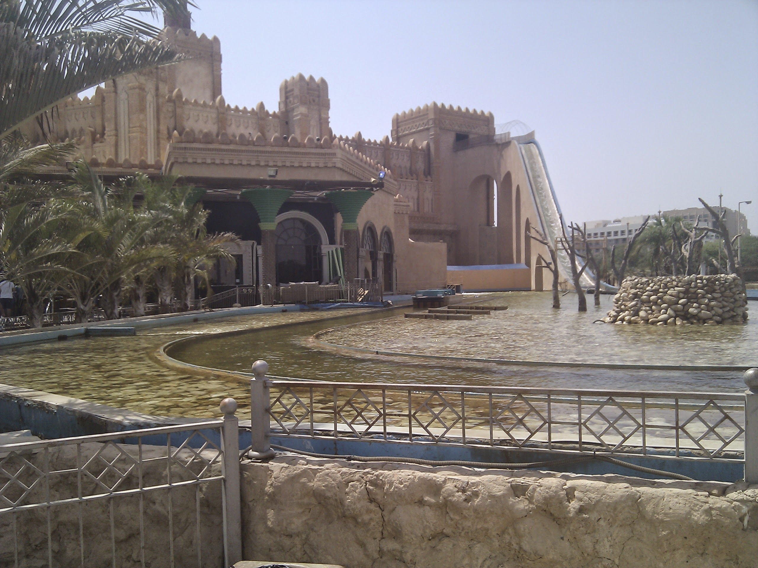 Architecture of Israel